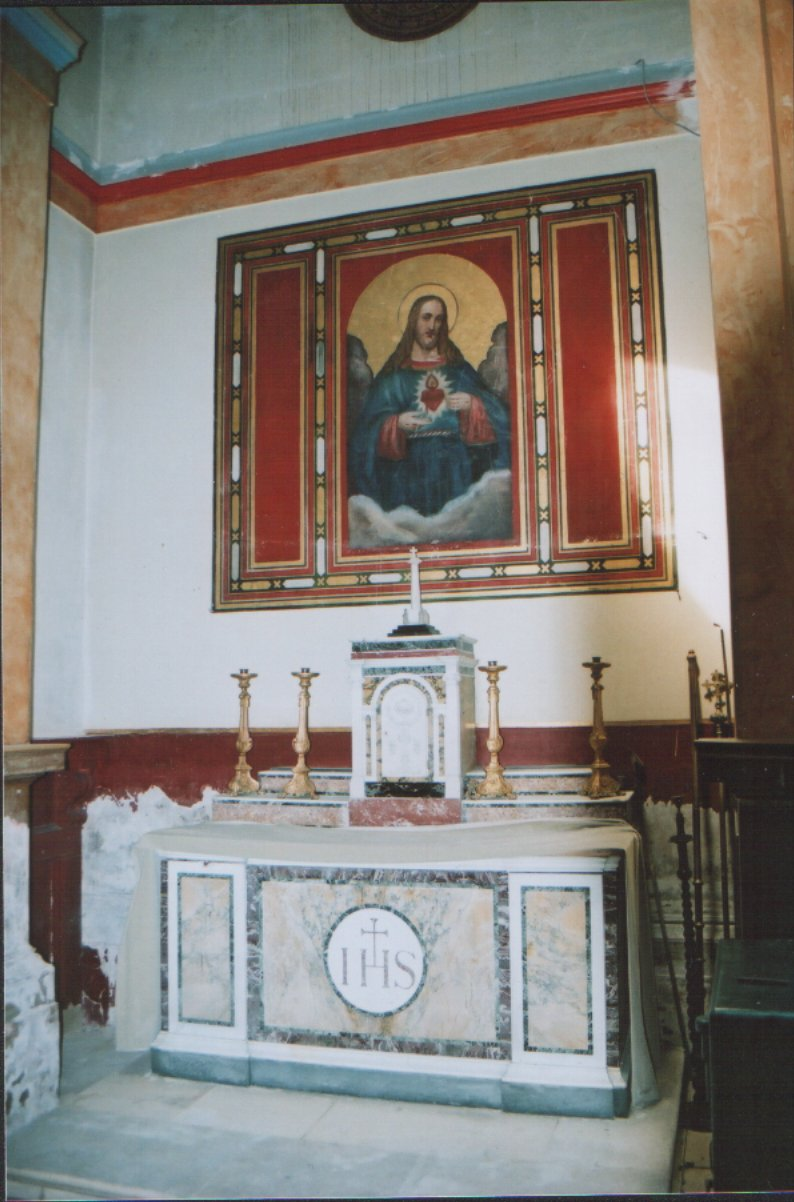 Side Chapel of St Mary the Virgin and St Everilda's Roman Catholic Church, Everingham, East Riding of Yorkshire, England.I took the photograph